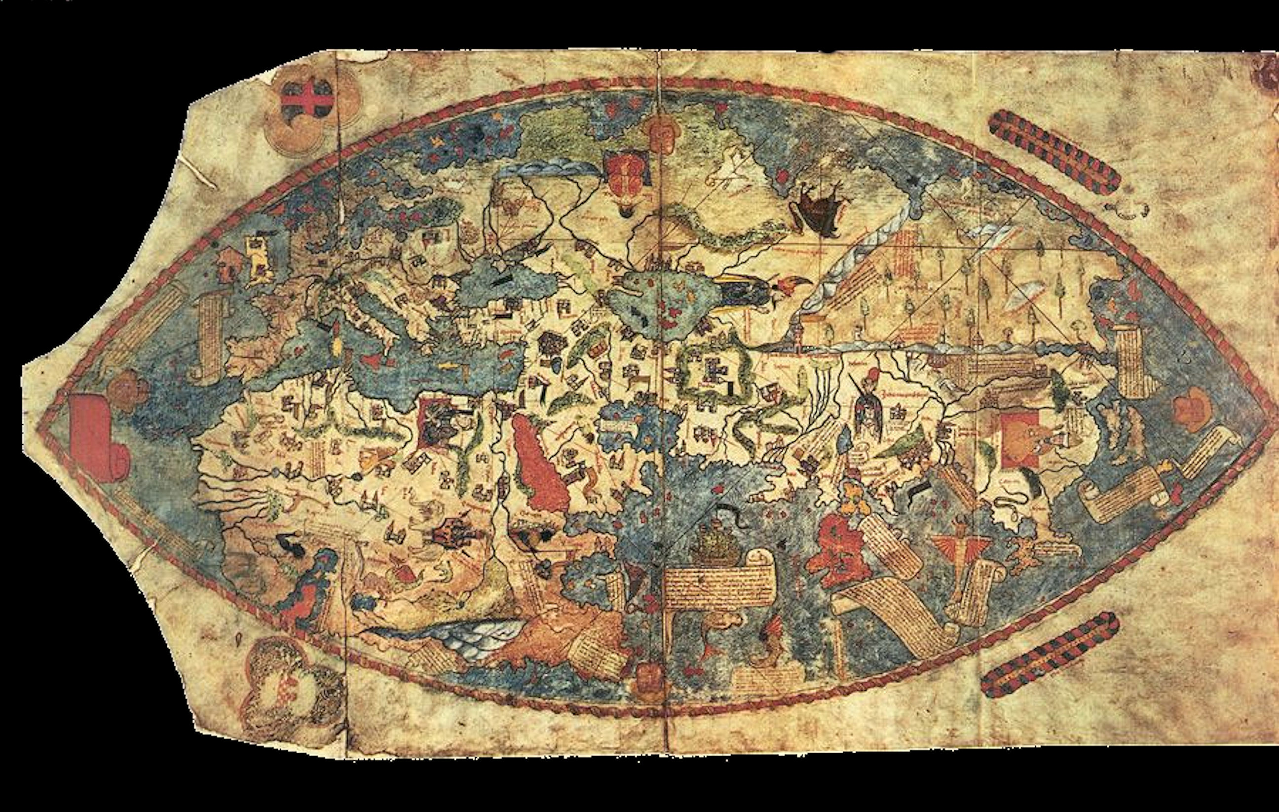 Genoese_map